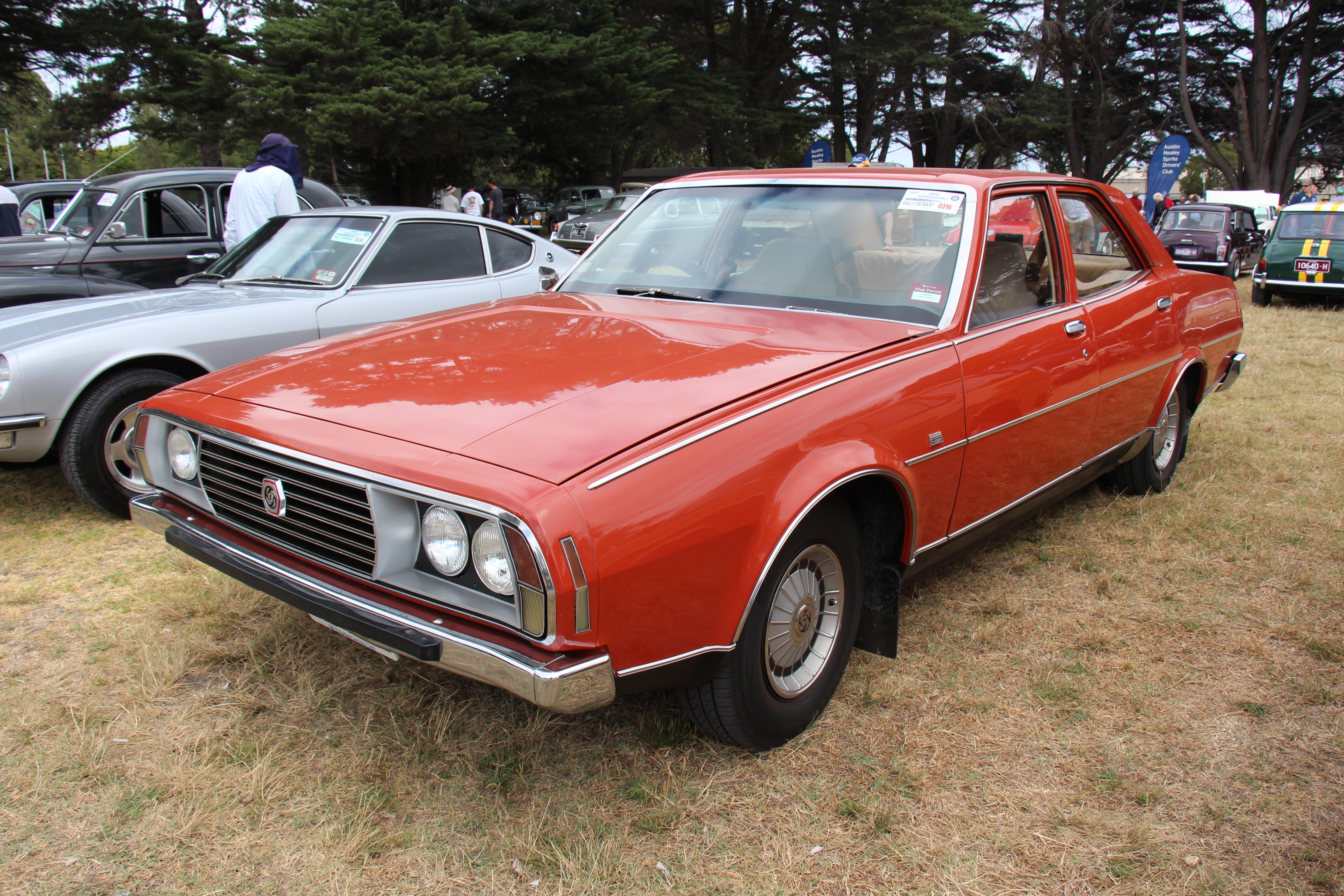 The Leyland P76 was a large car that was produced by Leyland Australia, the Australian subsidiary of British Leyland, Built from 1973-75, It was direct competition for the Australian for the Ford Falcon, Holden Kingswood and Chrysler Valiant of the time. Sedan only available in Deluxe, Super, Executive, Targa Florio, also 8 Force 7 Coupe Prototypes are around. This is the mid spec Super, it got Bucket seats, carpet, woodgrain dash, full instrumentation and a 4 headlight front. (the top Executive got standard T bar, V8, power steering, cloth seats etc, most easily identified by the rubber bump strips on the bumpers). Due to strikes and the oil crisis, Leyland Australia was in serious financial trouble, even before the P76 hit the showroom floors, it closed down in Oct 74 Engines; 2623cc 6 cyl from the Austin Kimberley and Tasman, or 4416 alloy V8, a derivitive of the ex Buick Rover V8